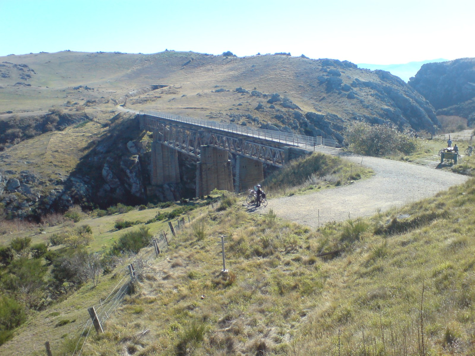 The famous Poolburn Viaduct, Otago, New Zealand. Looking from the east.